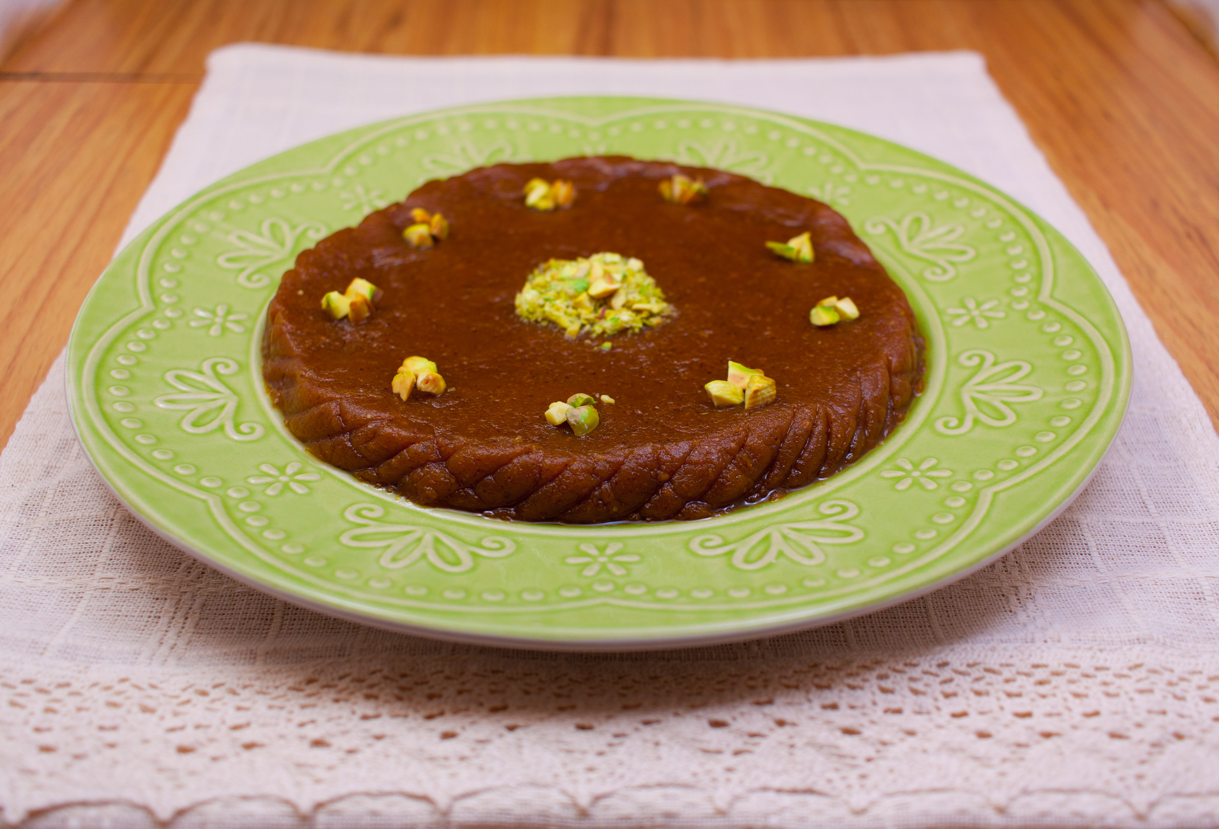 Persian halva